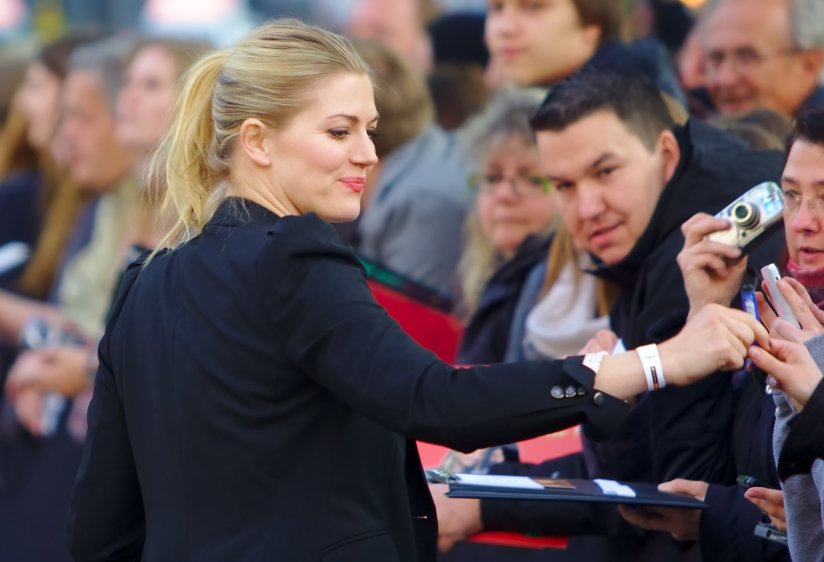 Filmpremiere "Zulu" in Hamburg, 5. Mai 2014